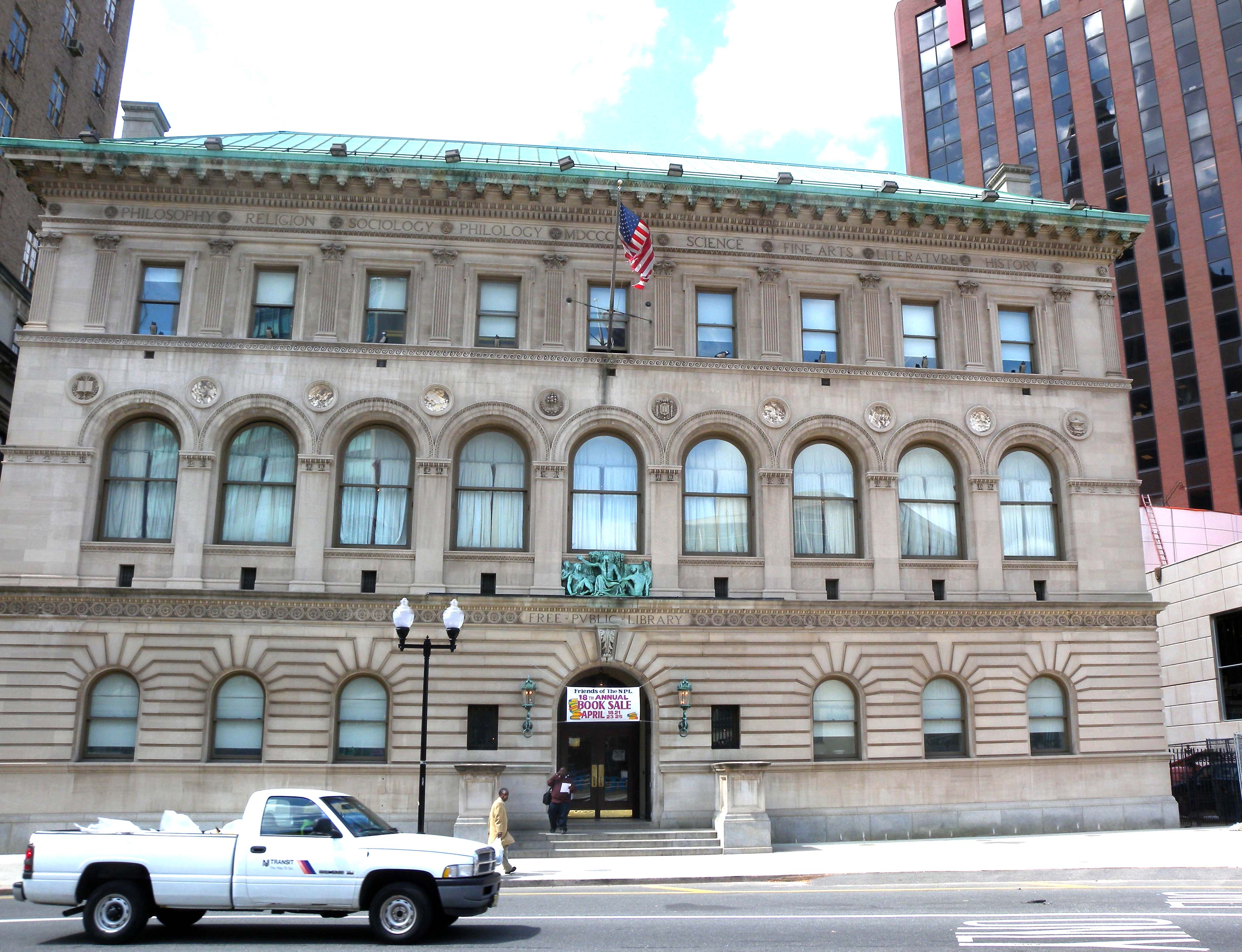 Main Library, Newark Public Library - Looking northwest from northern corner of Washington Park on a sunny midday.